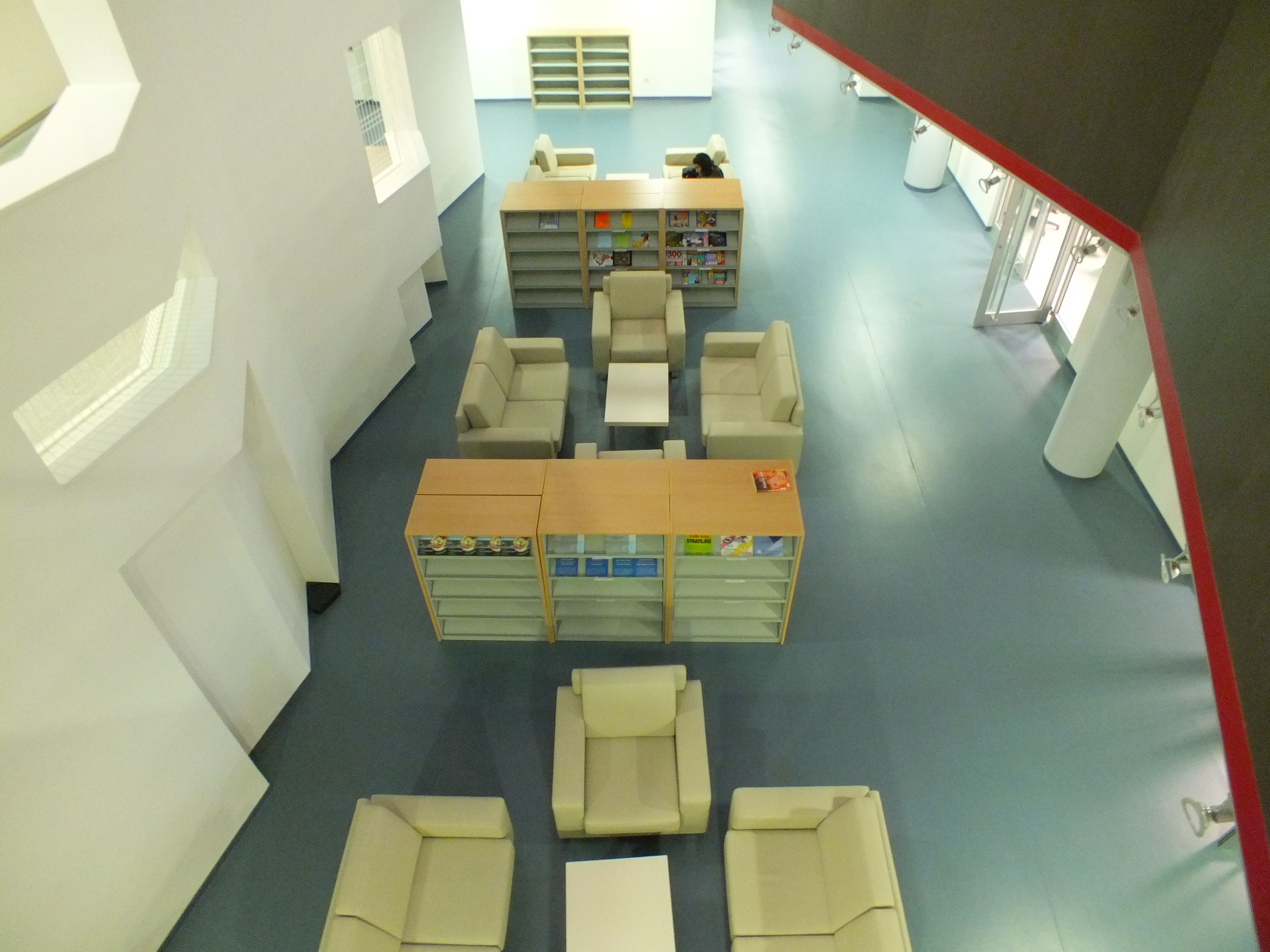 A view of the Çankaya University Library